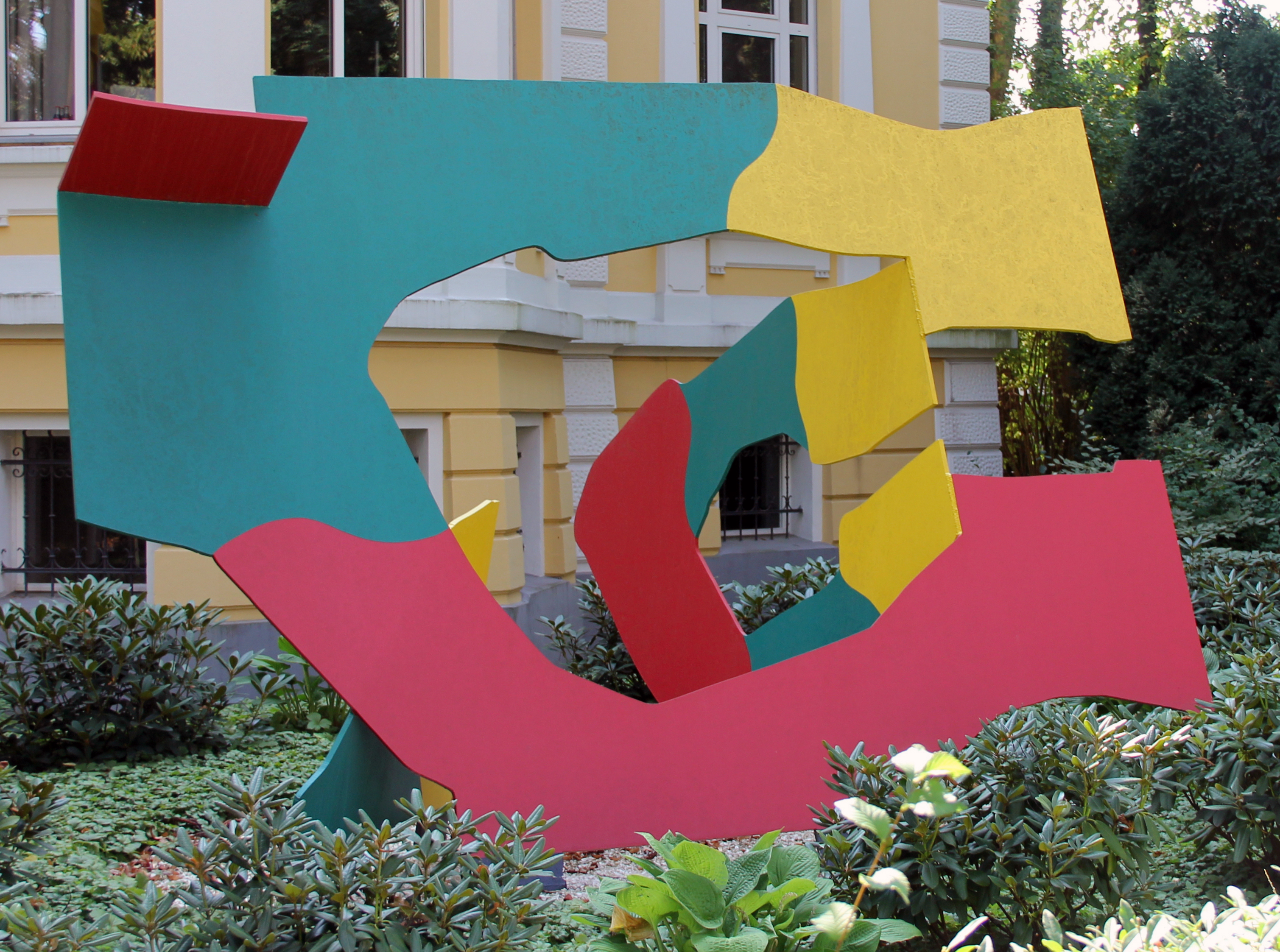 Sculpture, "Gemeindebund" by Frank Schult,, Marienstraße 6, Berlin-Lichterfelde, Germany